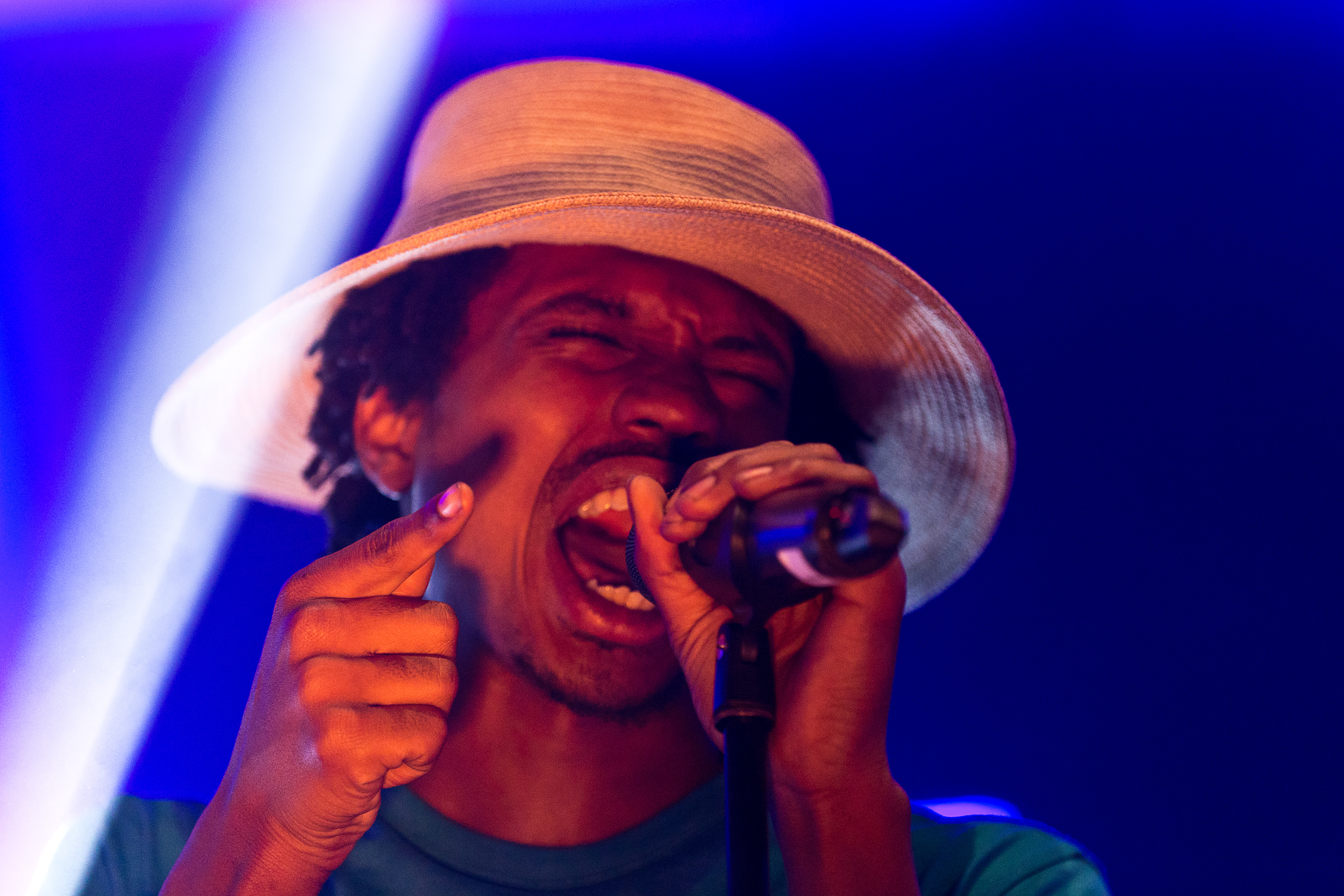 The American musician Raury with band at the Melt! 2015 in Ferropolis/Germany.